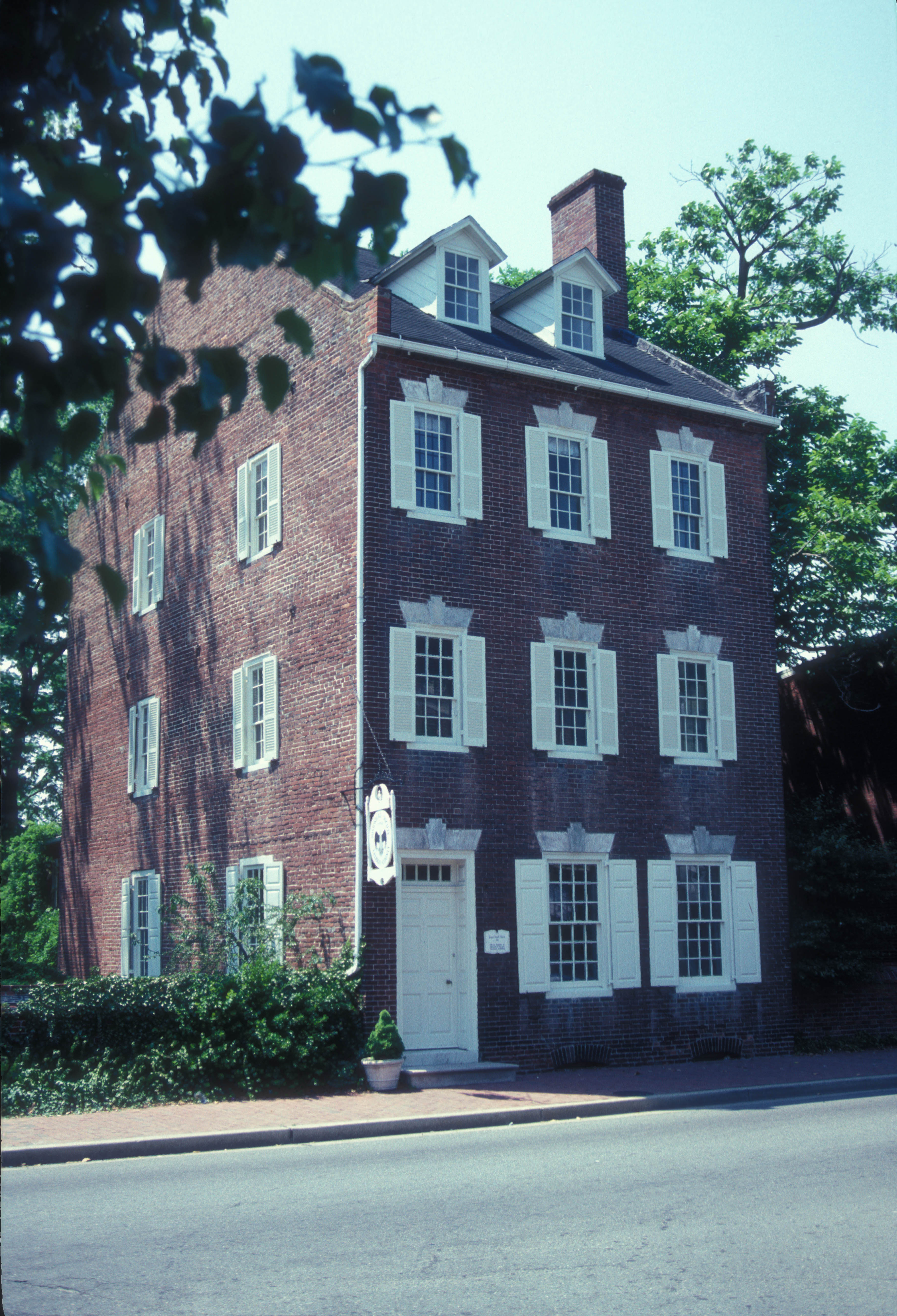 JAMES NEALL HOUSE; 1804-1810; FEDERAL HIGH STYLE TOWNHOUSE BUILT BY NEALL WHO WAS A QUAKER; NOW THE COUNTY HISTORICAL SOCIETY